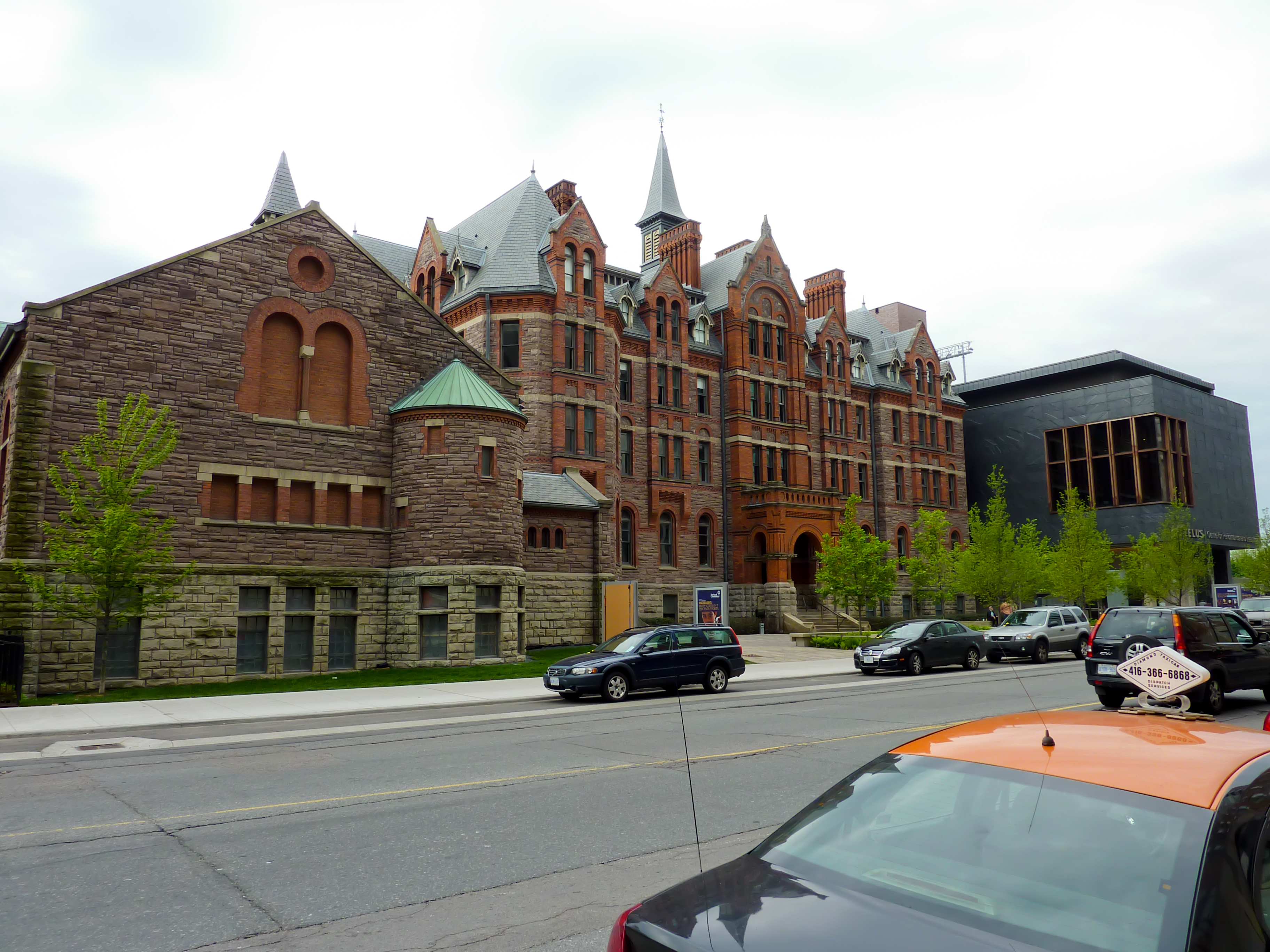 Here is the Royal Conservatory of Music, located along a very attractive stretch of Bloor Street West in the Yorkville neighbourhood, just next to the University of Toronto and the Royal Ontario Museum. Article about it here